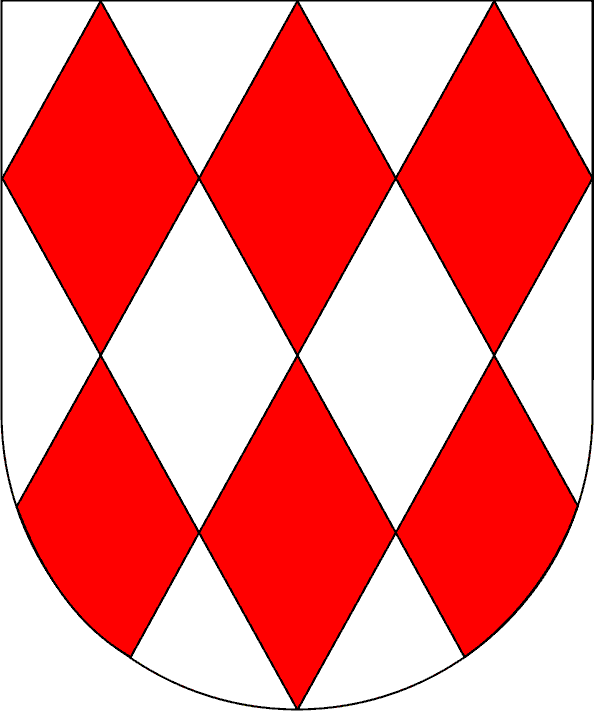 coats of arms of the county of Mansfeld